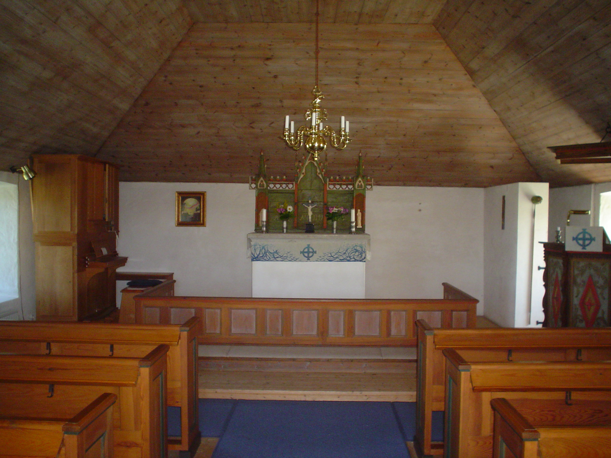 Interior of Hallshuk fishermans chapel